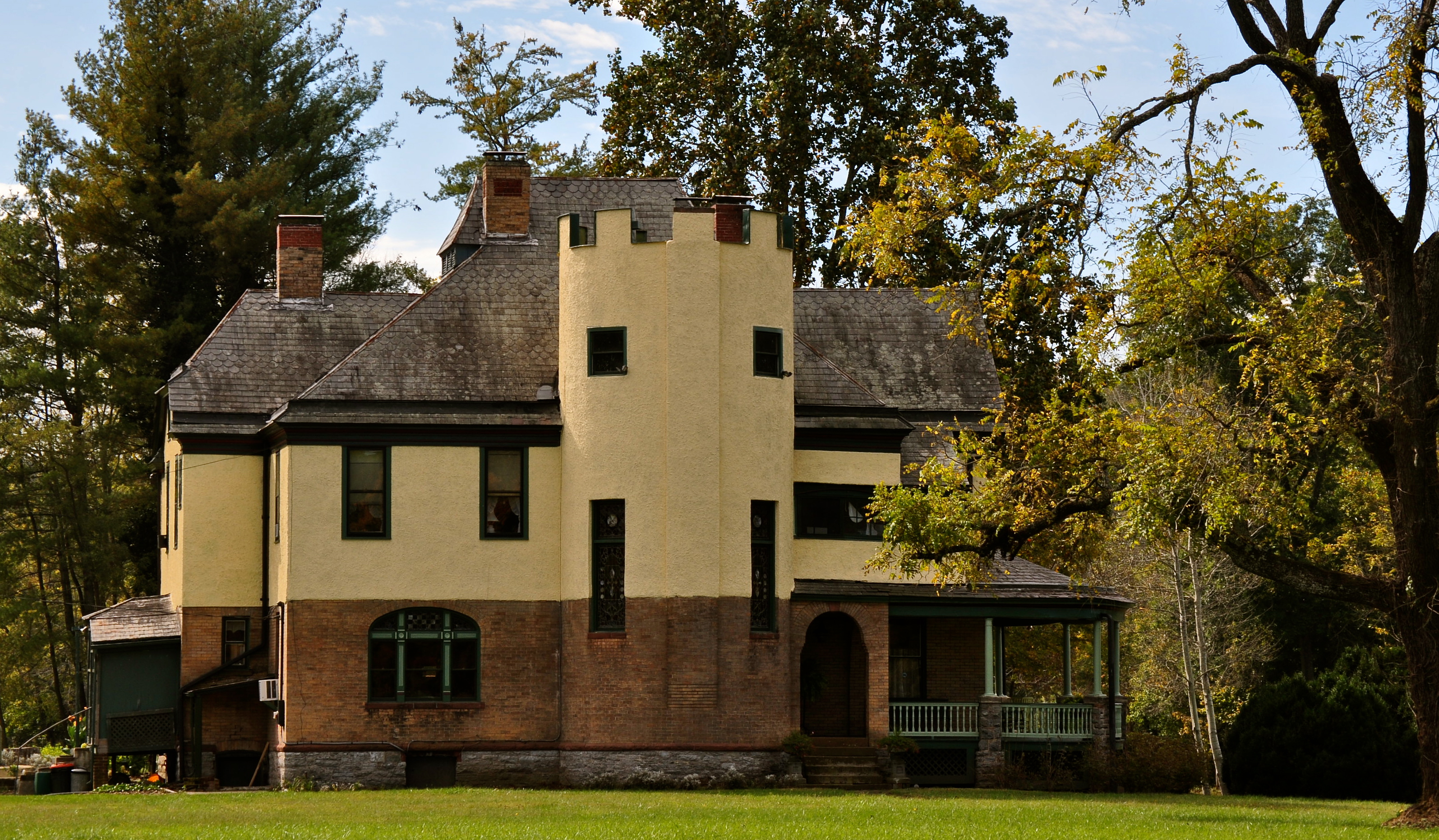 La Riviere, Radford, Virginia. Listed on the National Register of Historic Places